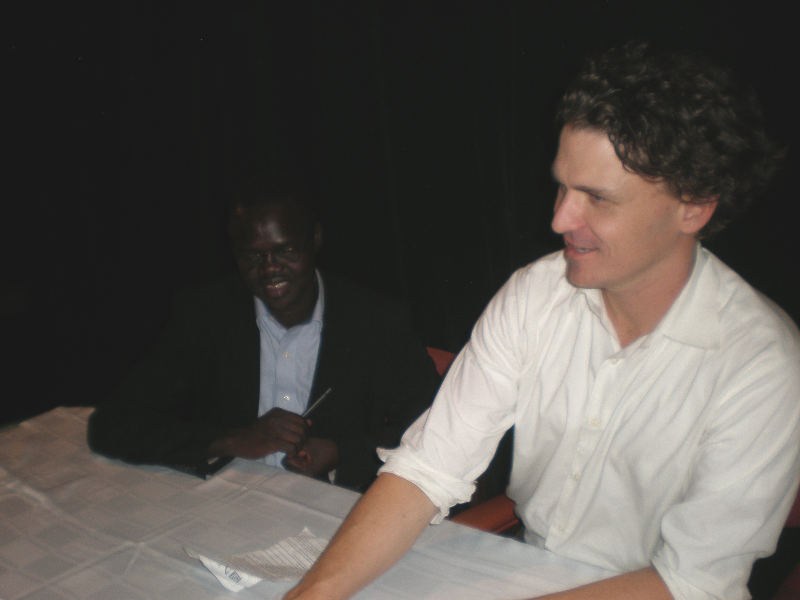 Author Dave Eggers (right) and Valentino Achak Deng, the subject of Eggers' novel What is the What signing books following a discussion of What is the What in San Mateo, California.